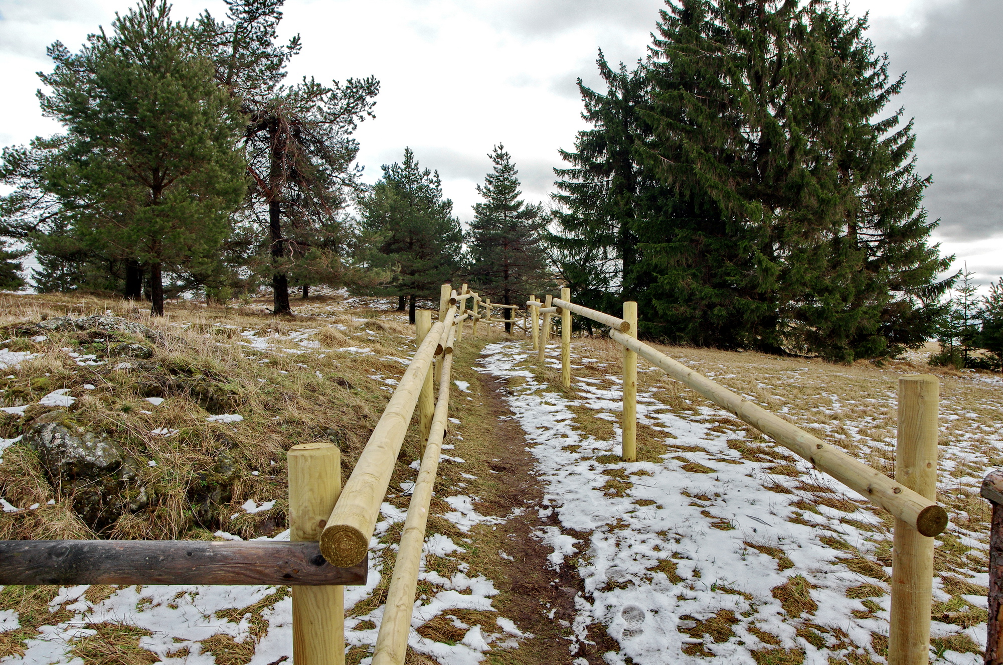 National natural monument Křížky near Prameny village in Cheb District, Czech Republic